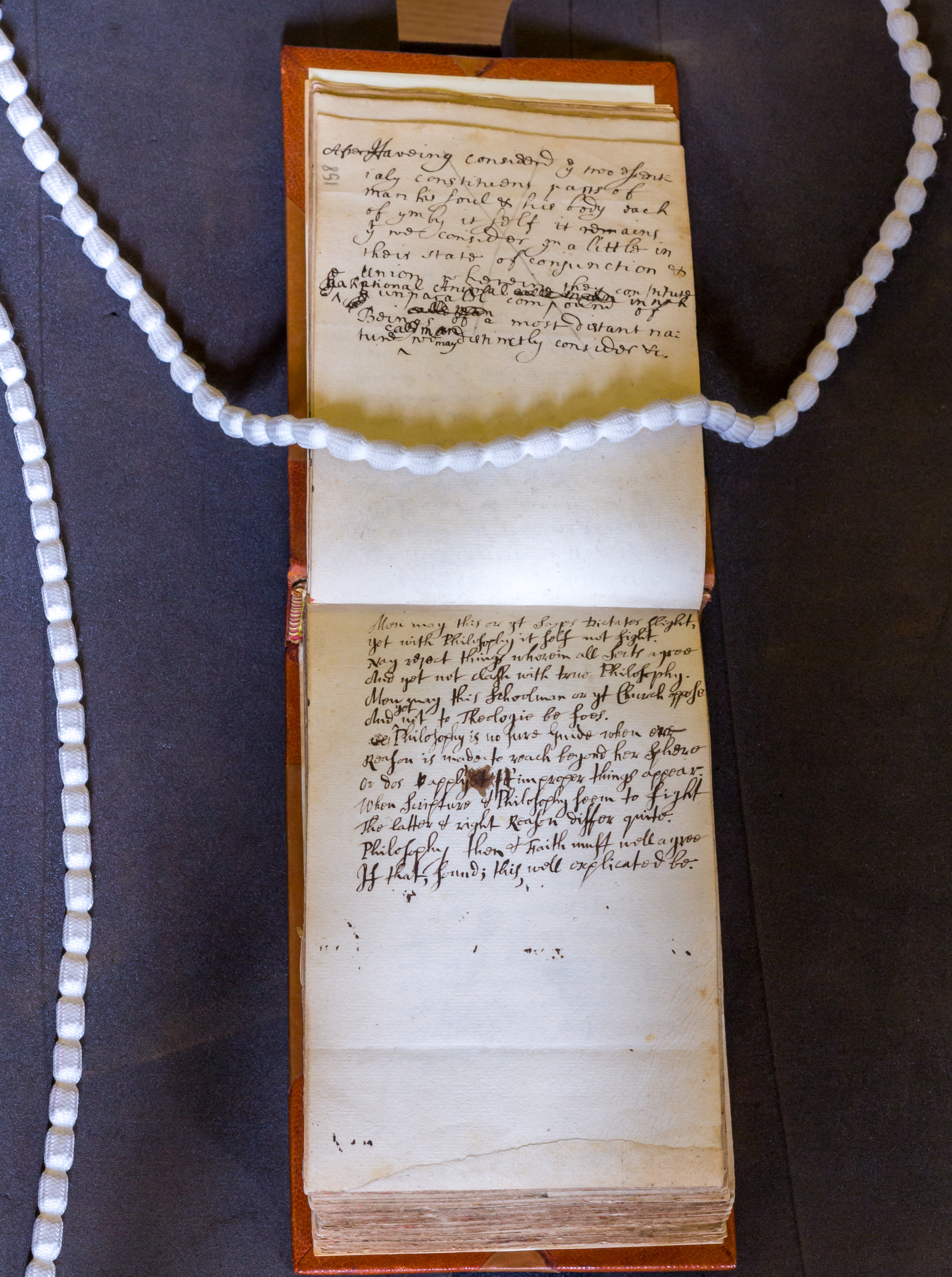 MS/187 – Robert Boyle notebook 1690-1691. Robert Boyle was a founding Fellow of the Royal Society. The RS archives holds 46 volumes of philosophical, scientific and theological papers by Boyle and 7 volumes of his correspondence.